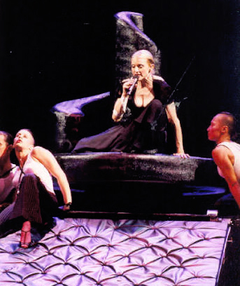 Picture taken at the concert